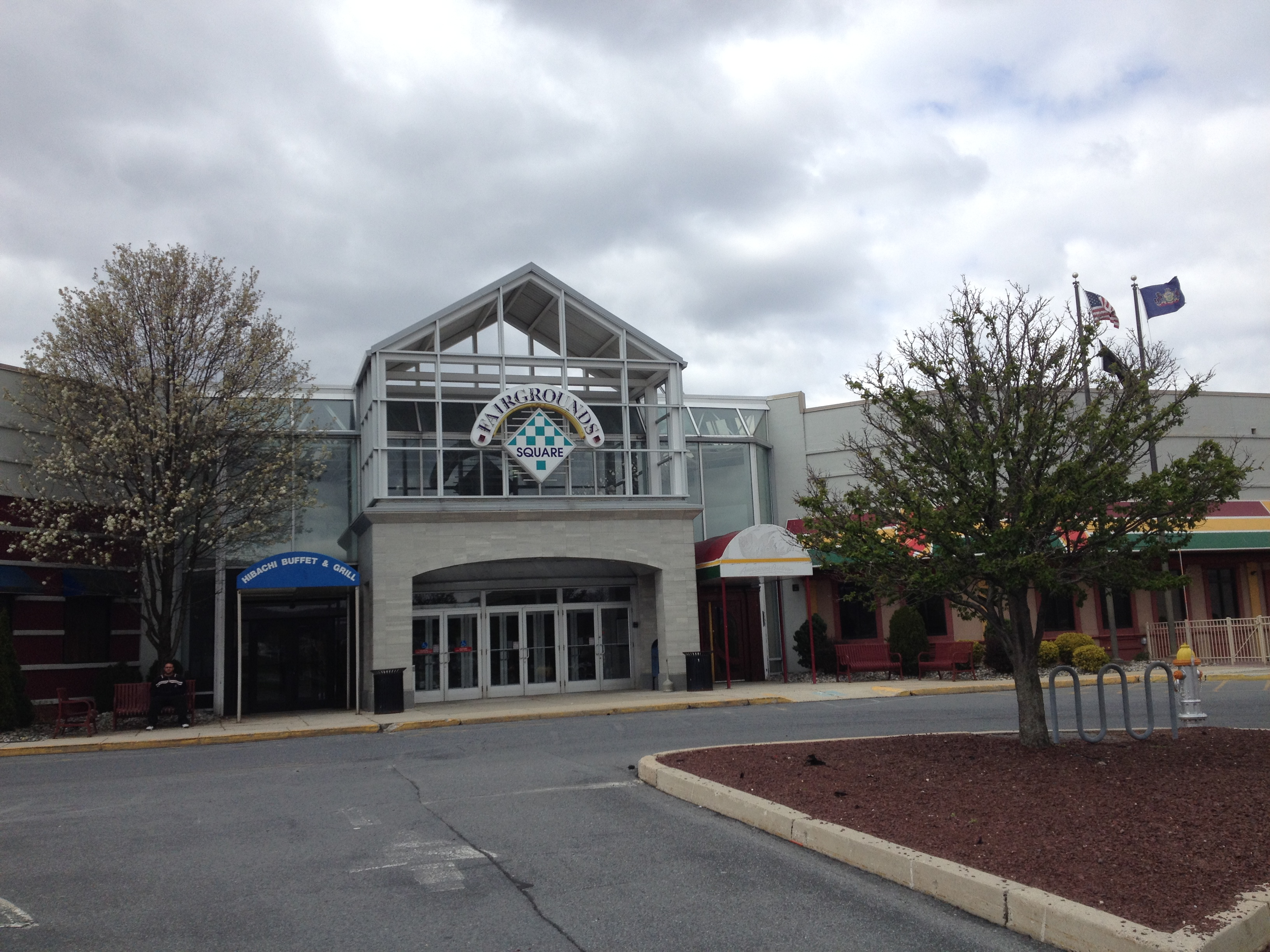 The southeast entrance to the Fairgrounds Square Mall in Reading, Pennsylvania, between Boscov's and Burlington Coat Factory.